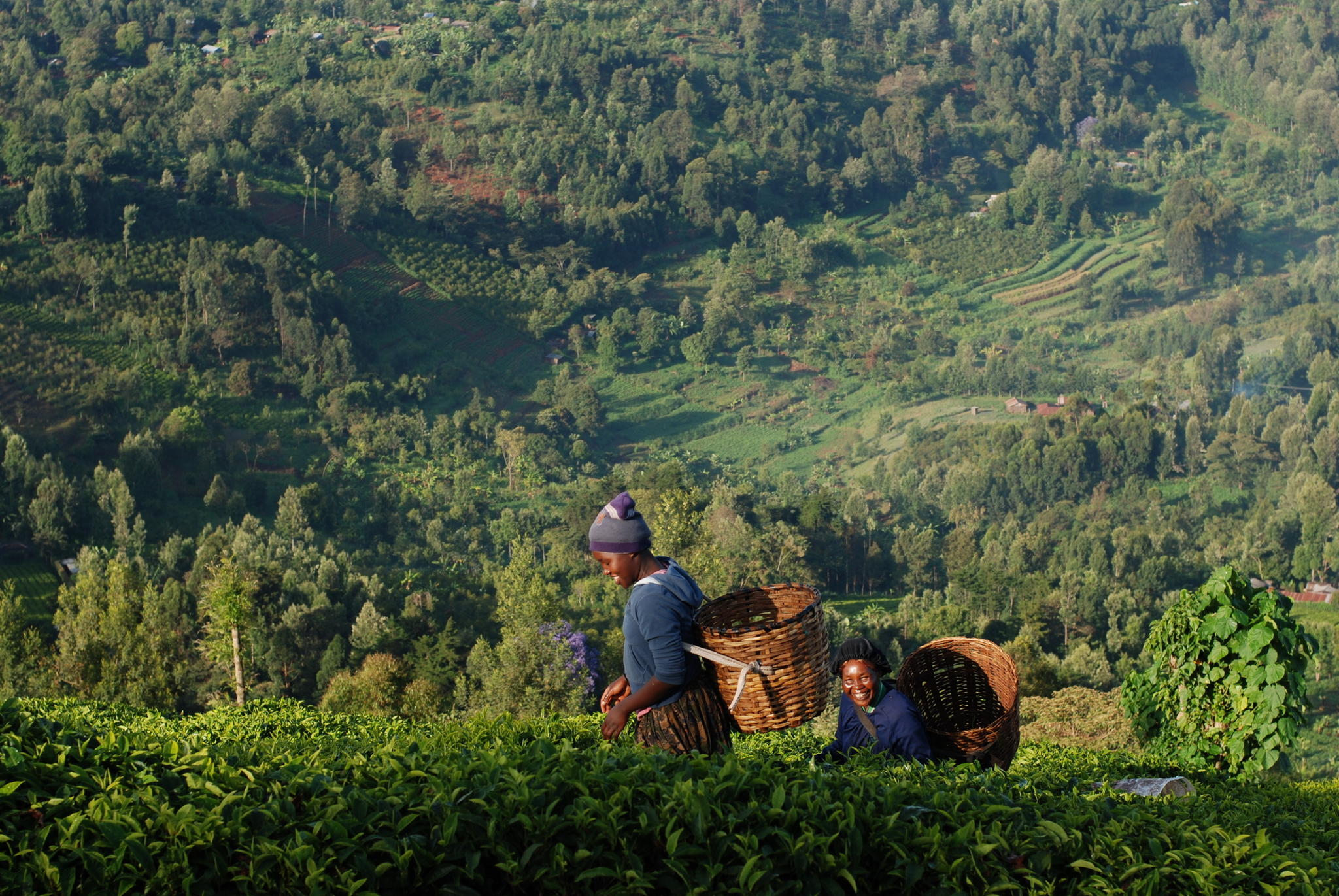 Tea pickers in Kenya harvesting tea leaves of Camellia sinensis the traditional way. This is an image of "African people at work" from Kenya